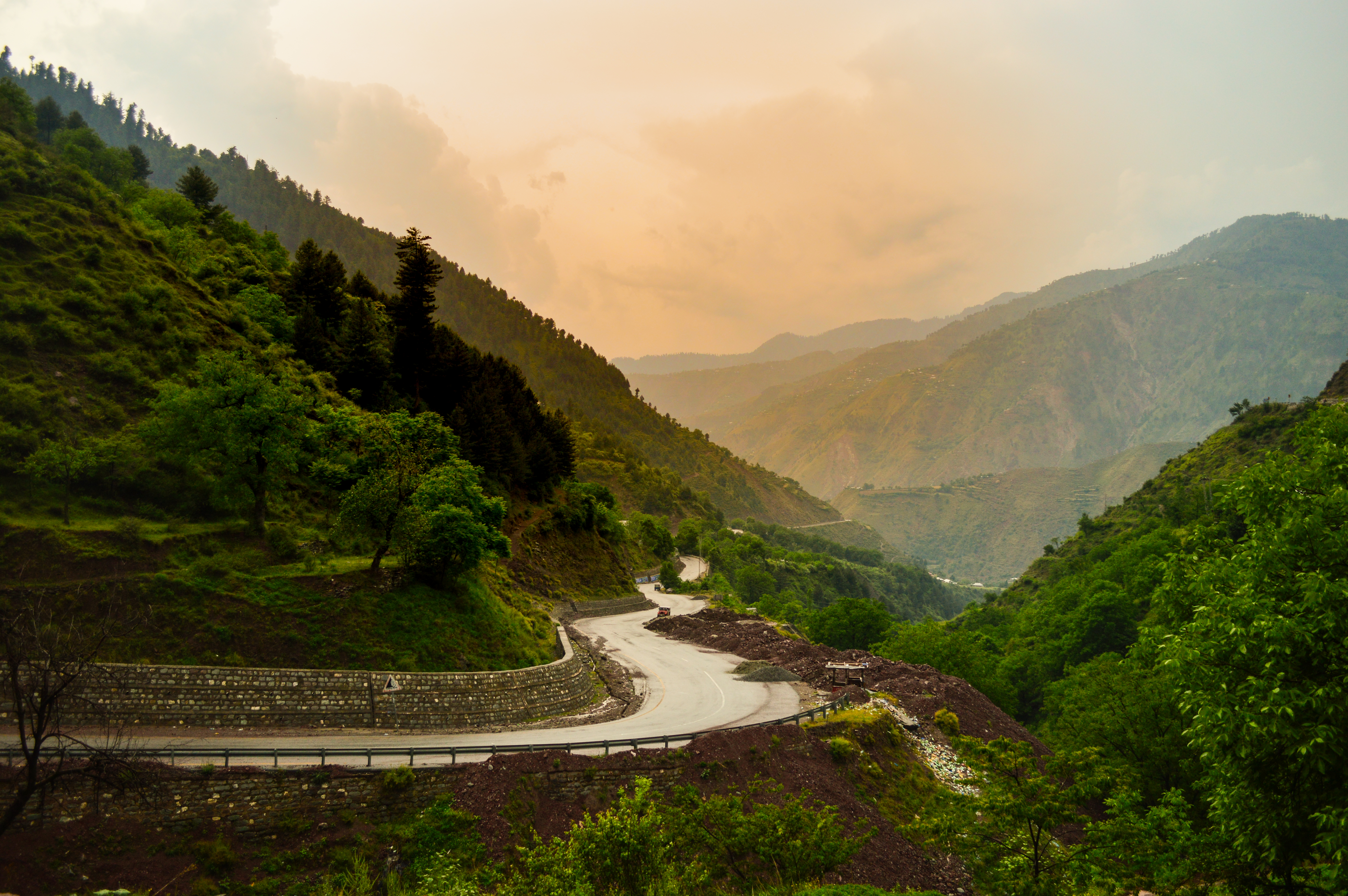 Kewai, Kaghan Valley, Pakistan